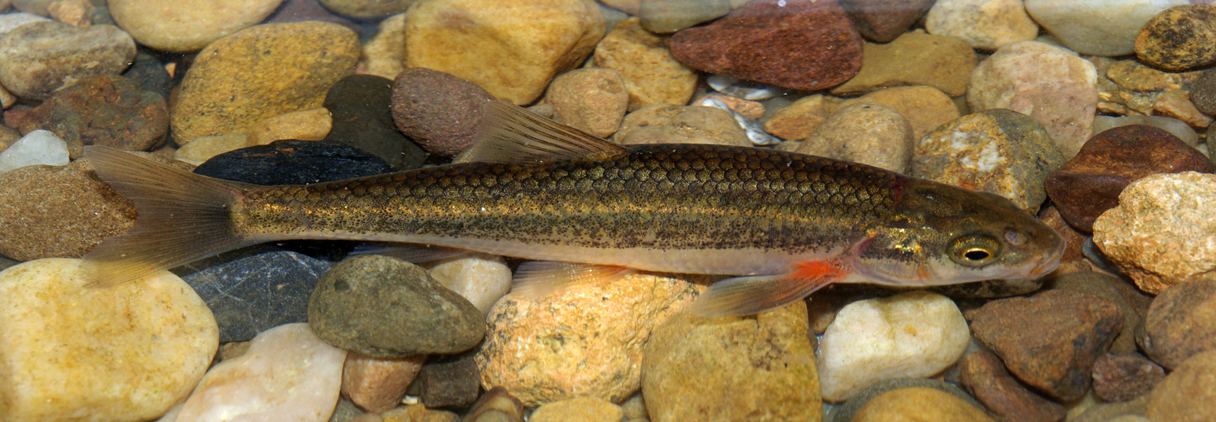 Achondrostoma arcasii. River Bernesga, León (Spain)